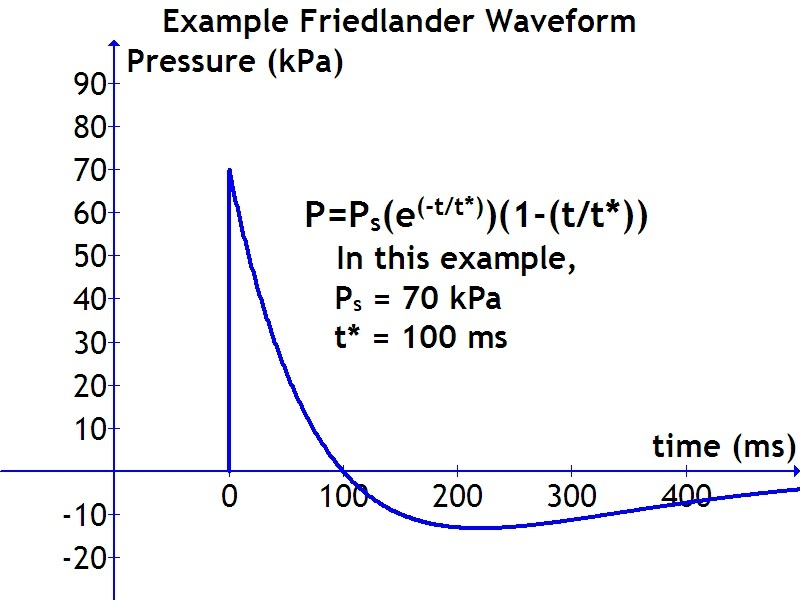 A Friedlander waveform is the simplest form of a blast wave in a free-field environment (e.g. not enclosed, no reflections)